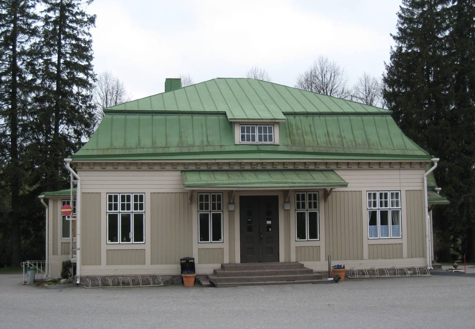 Former train station building at the Malmi cemetery in Helsinki, Finland